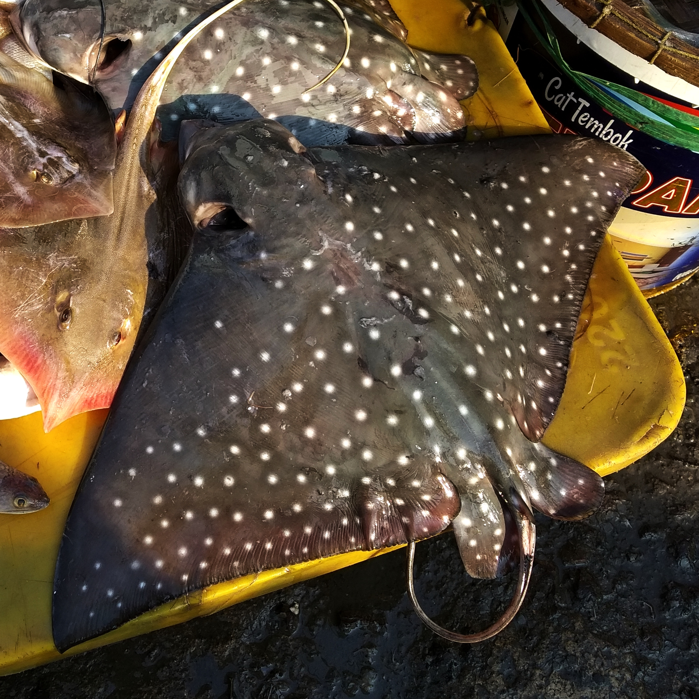 Ocellated eagle ray (Aetobatus ocellatus), sold at Labuan fish-market. From Pandeglang, Banten, Indonesia.